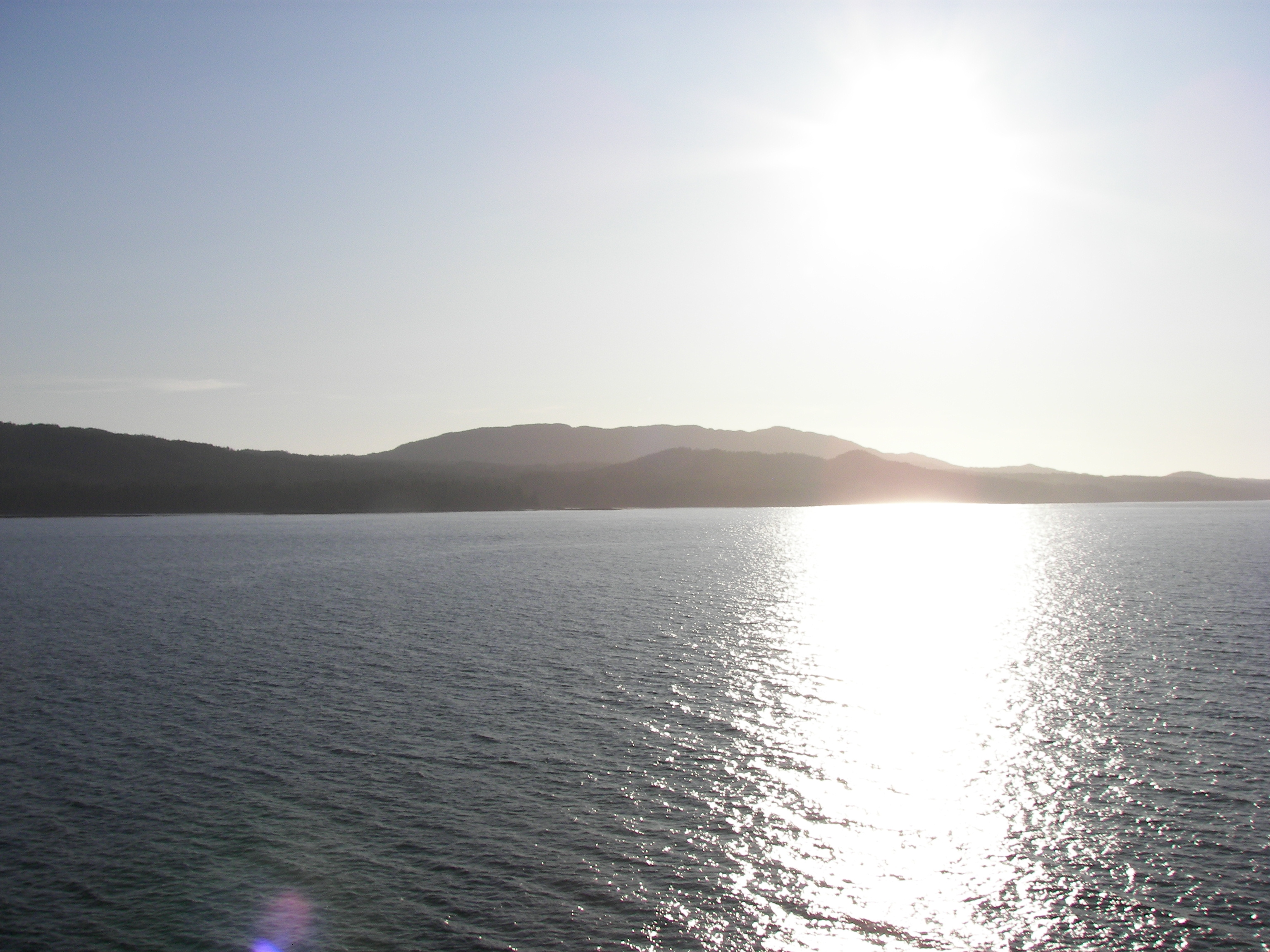 Sun with reflection in the Inside Passage, probably in British Columbia.